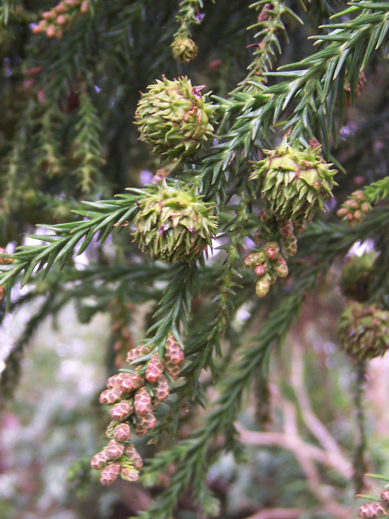 Both male and female cones of Cryptomeria japonica (plantations on Réunion island)